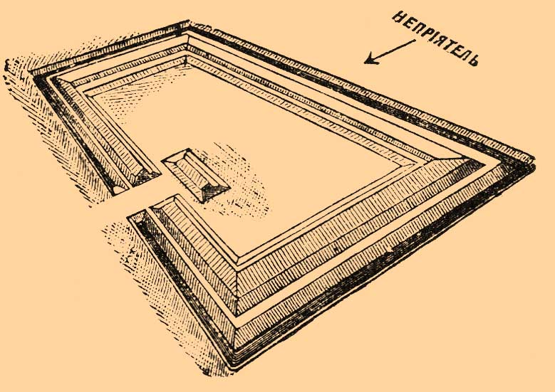 Illustration from Brockhaus and Efron Encyclopedic Dictionary (1890—1907)